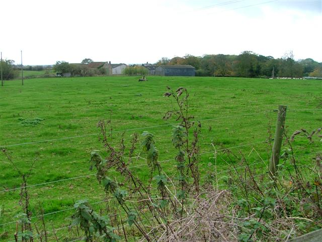 North Farm and the Medieval Village of Walworth. The field in front of the farm is full of the lumps and bumps of medieval village of Walworth.